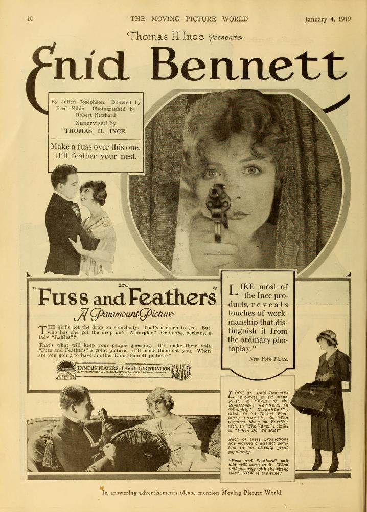 Advertisement in Moving Picture World, Jan 1919 for the film Fuss and Feathers (1918) with Enid Bennett.